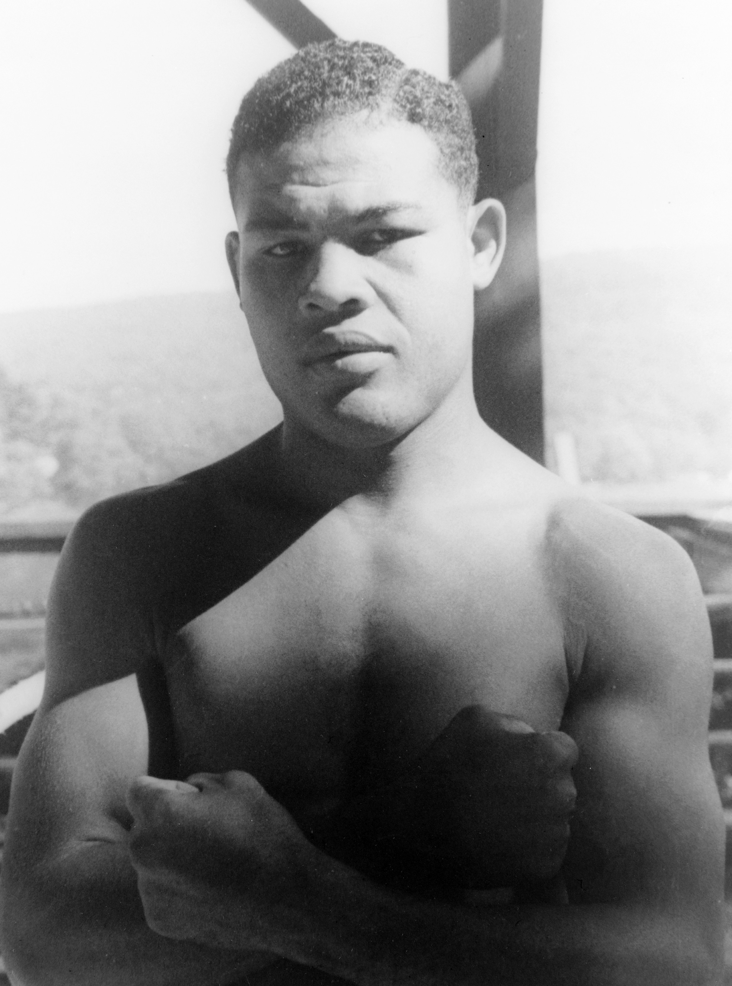 Portrait of boxer Joe Louis